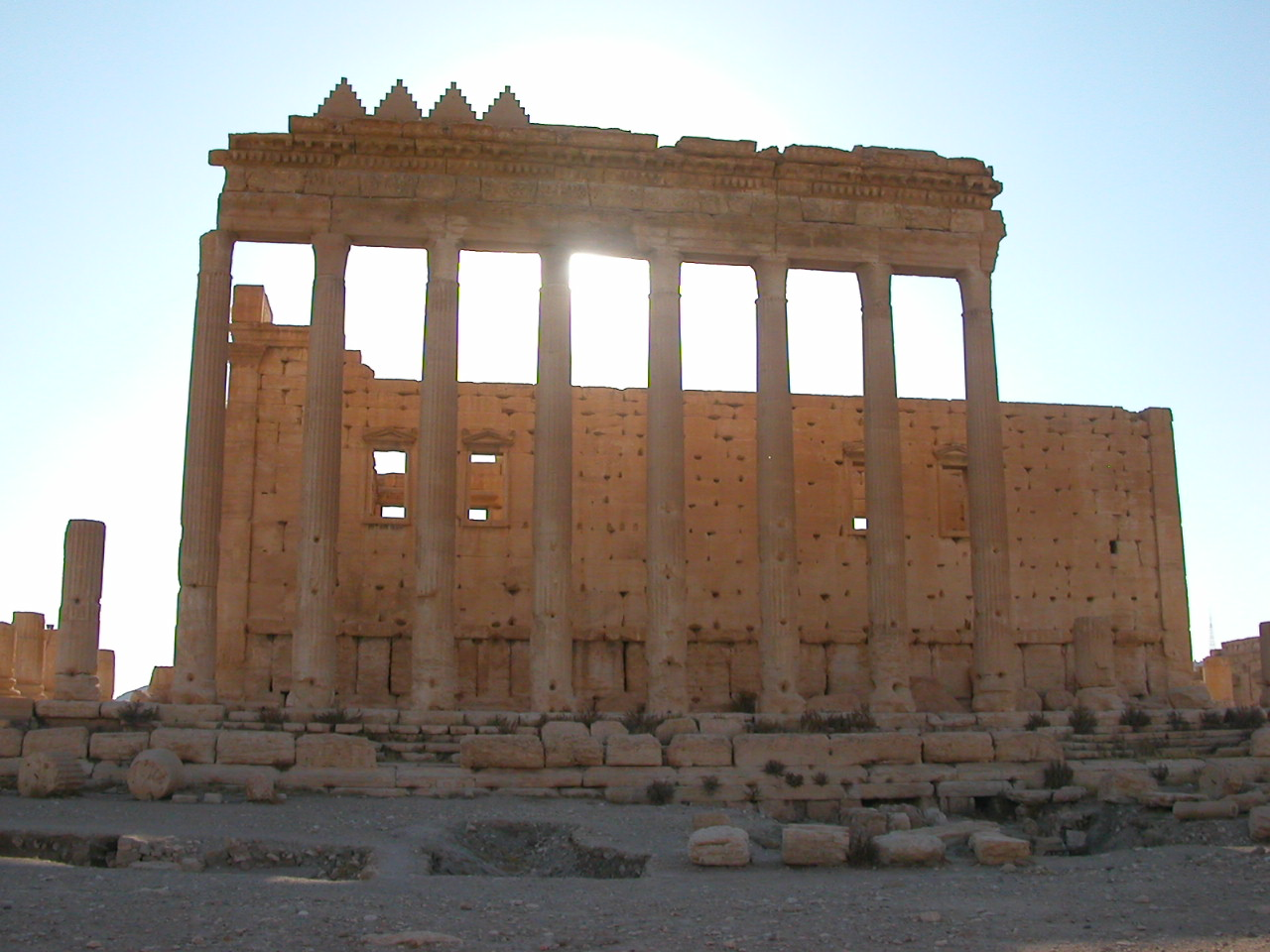 Temple of Bel with extant merlons showing Mesopotamian architectural influences.